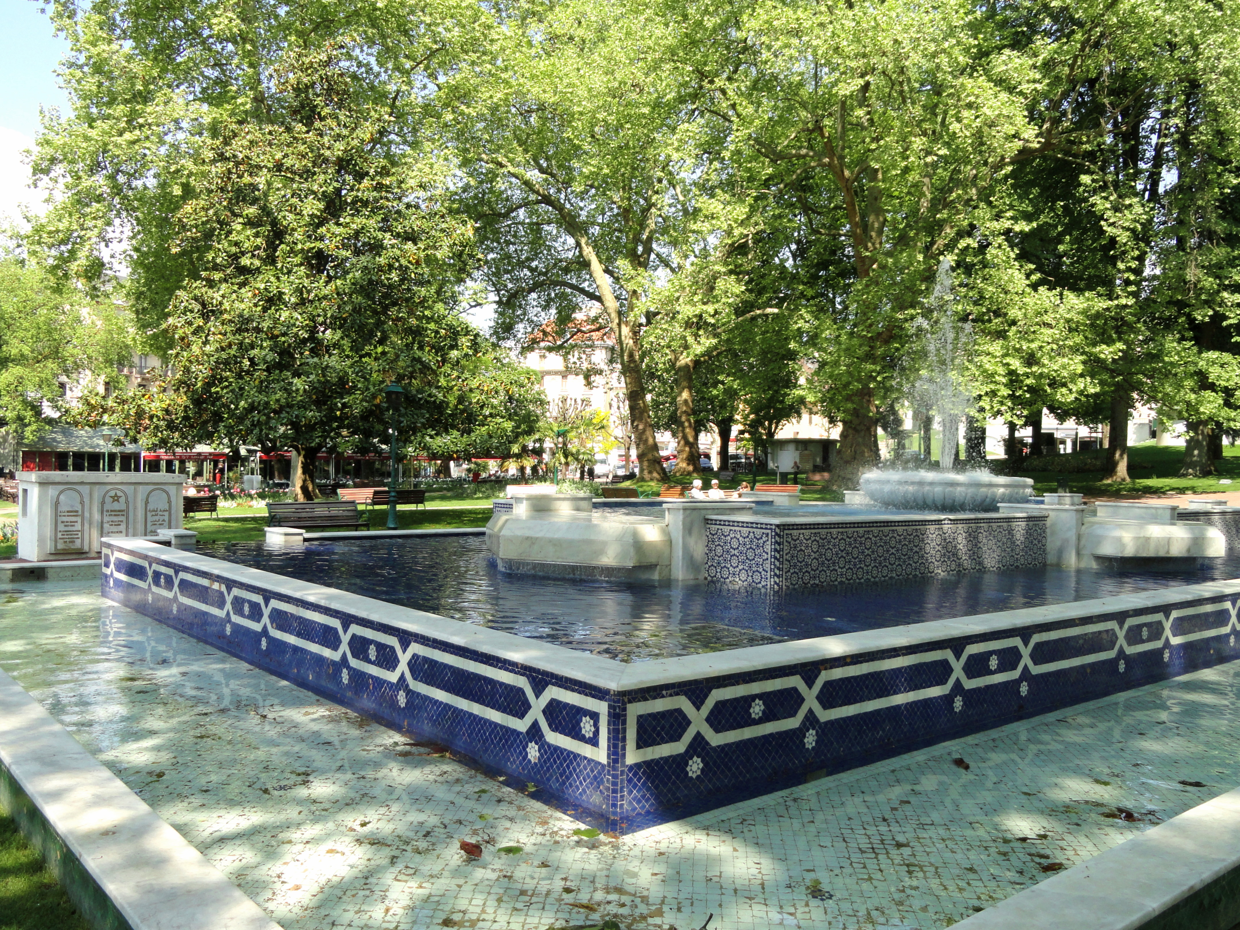 Fontaine marocaine, in the Parc floral des Thermes, Aix-les-Bains, France.